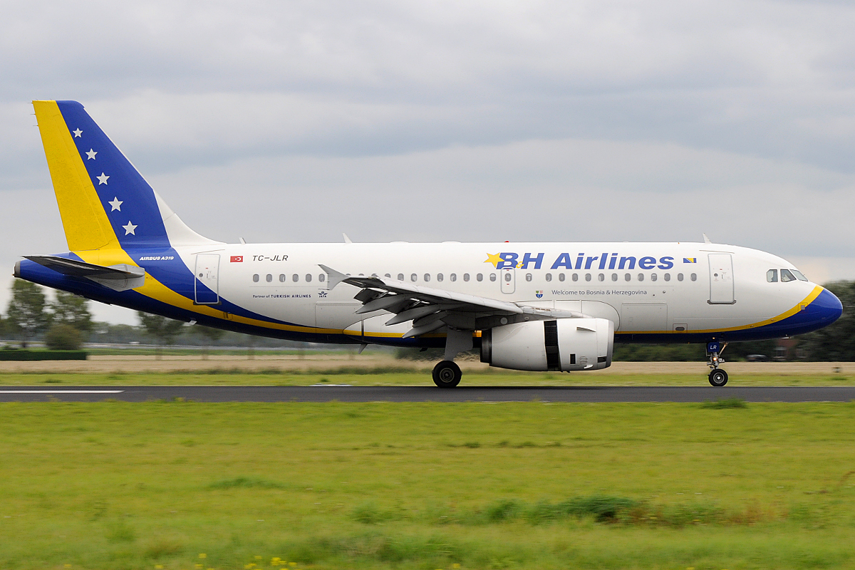 BH Airlines A319 in Amsterdam